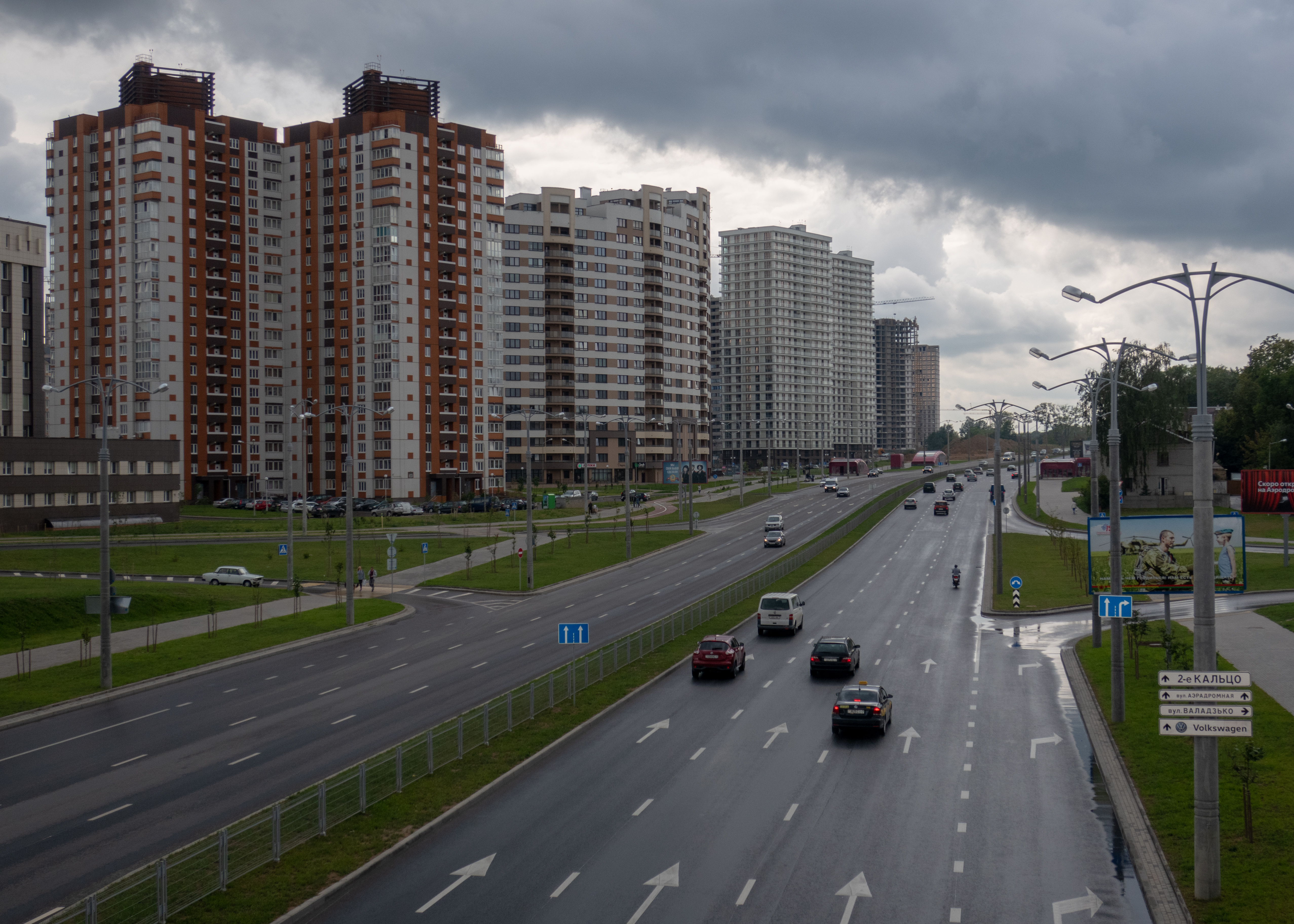 Aeradromnaja street (Minsk, Belarus)